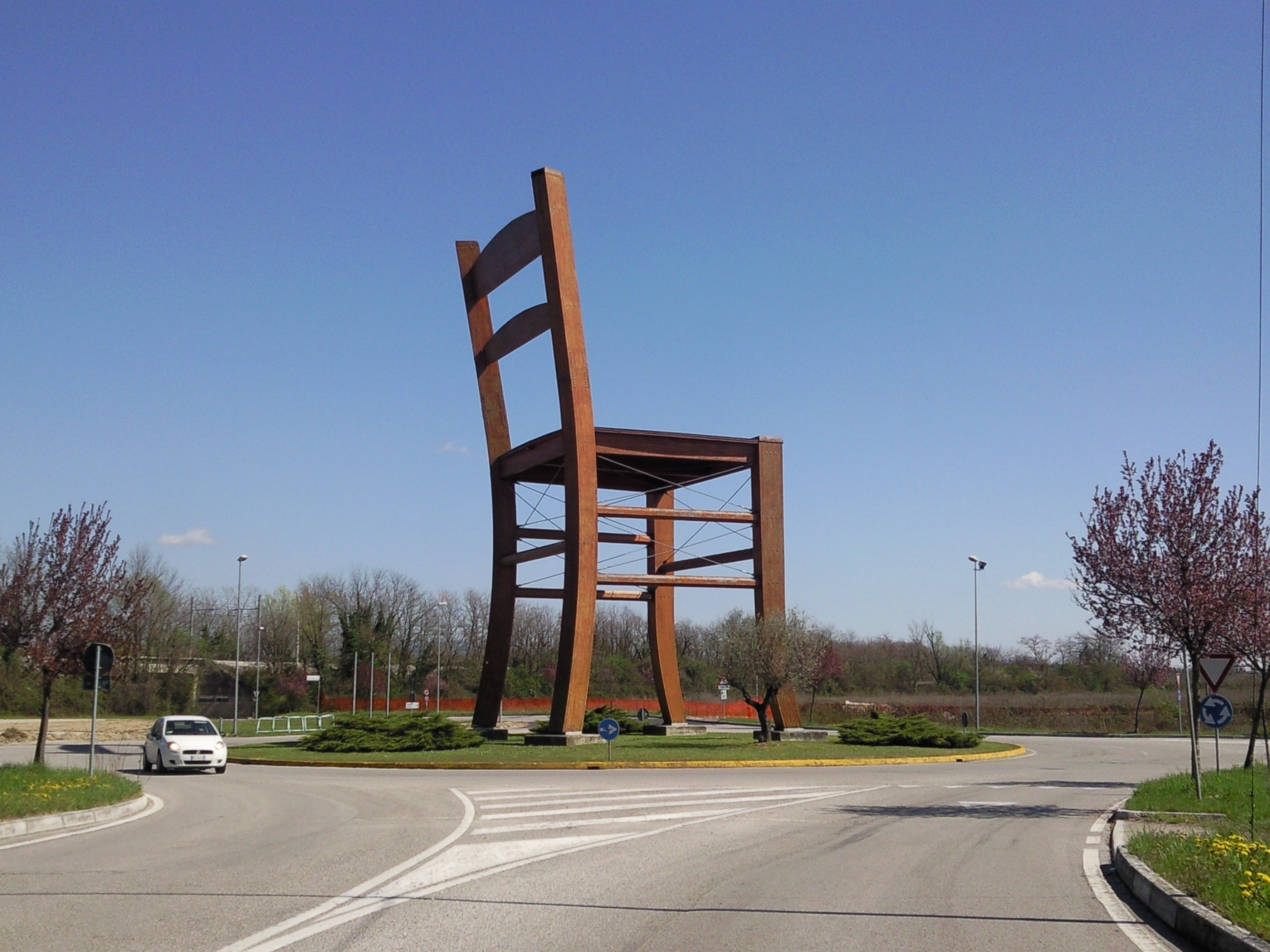 The big Chair of Manzano